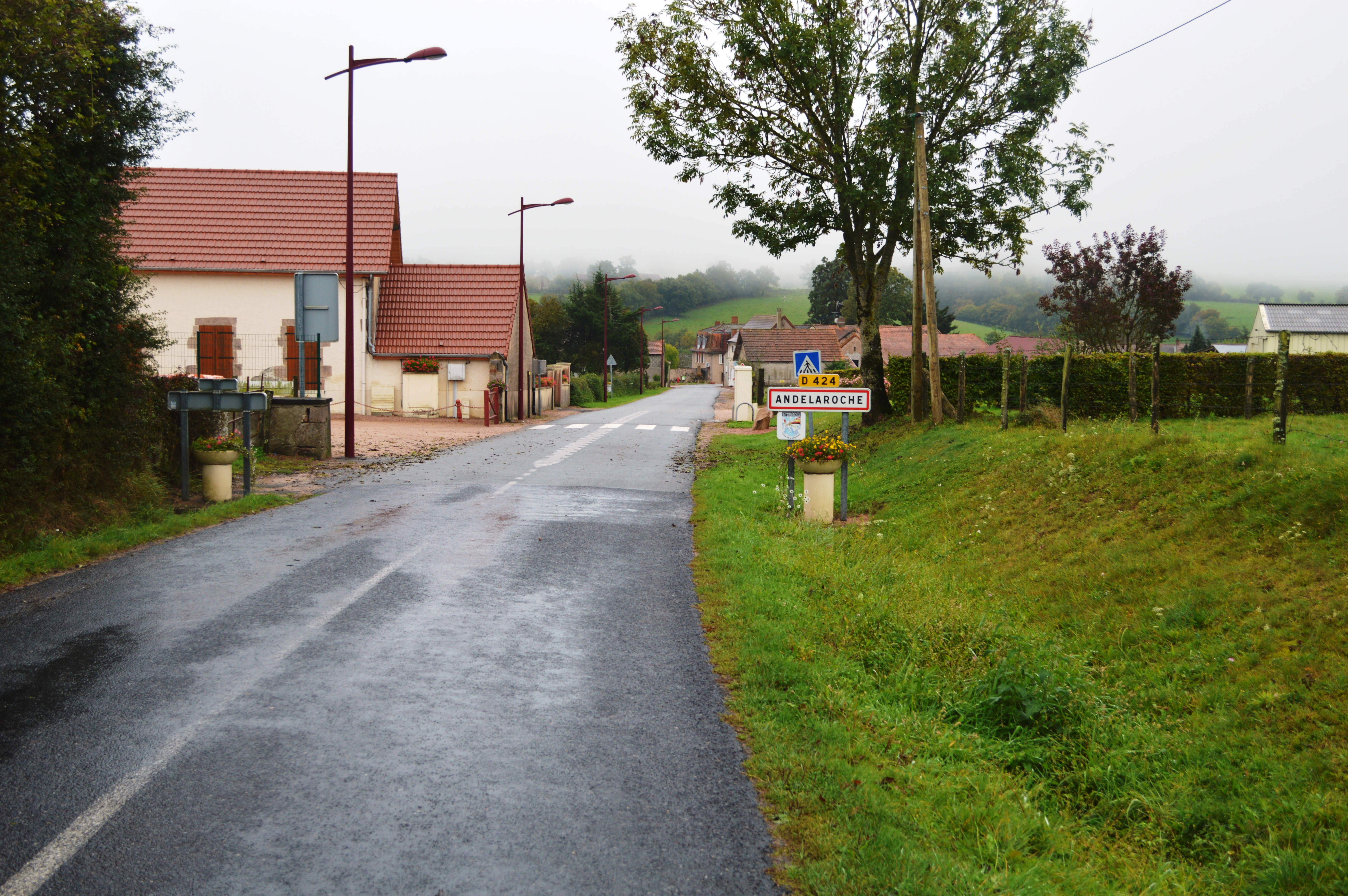 The entry to Andelaroche